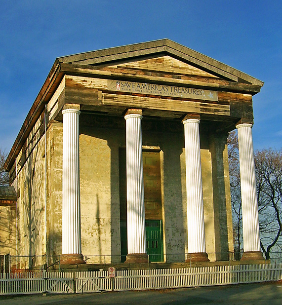 Photographed by Daniel Case on 2006-11-26.